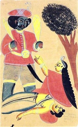 Savitri, the wife of Satyavan, begging Yama the God of Death to restore her husband's life